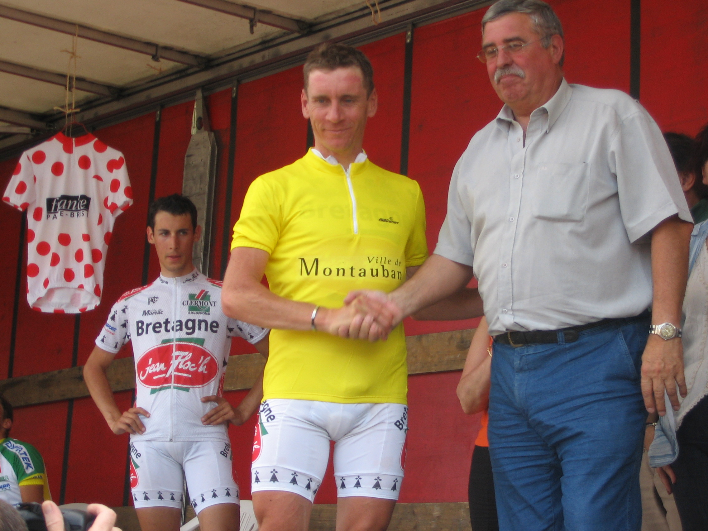 Stéphane Pétilleau after his victory at the Tour du Tarn-et-Garonne on the 12th of June 2005 in Montauban.